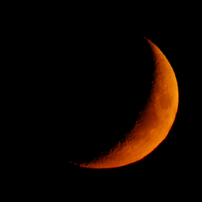 Waxing crescent moon with 23 percent visible surface on 13th October 2018 in Berlin a quarter-hour before moon set, after astronomical dusk at stable high pressure weather conditions. The light of the moon, which was only a few degrees above horizon line, has passed more than two hundred kilometres through the earth's atmosphere, and therefore, it was irregularly deflected by scintillation, attenuated by extinction and tinted reddish by Rayleigh scattering. Colour temperature = 4100 Kelvin (white moon light).